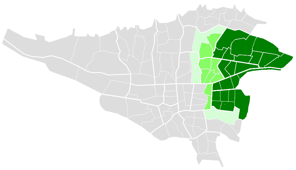 East of Tehran